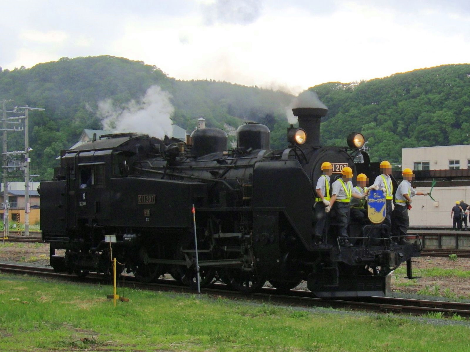 SL Okhotsk